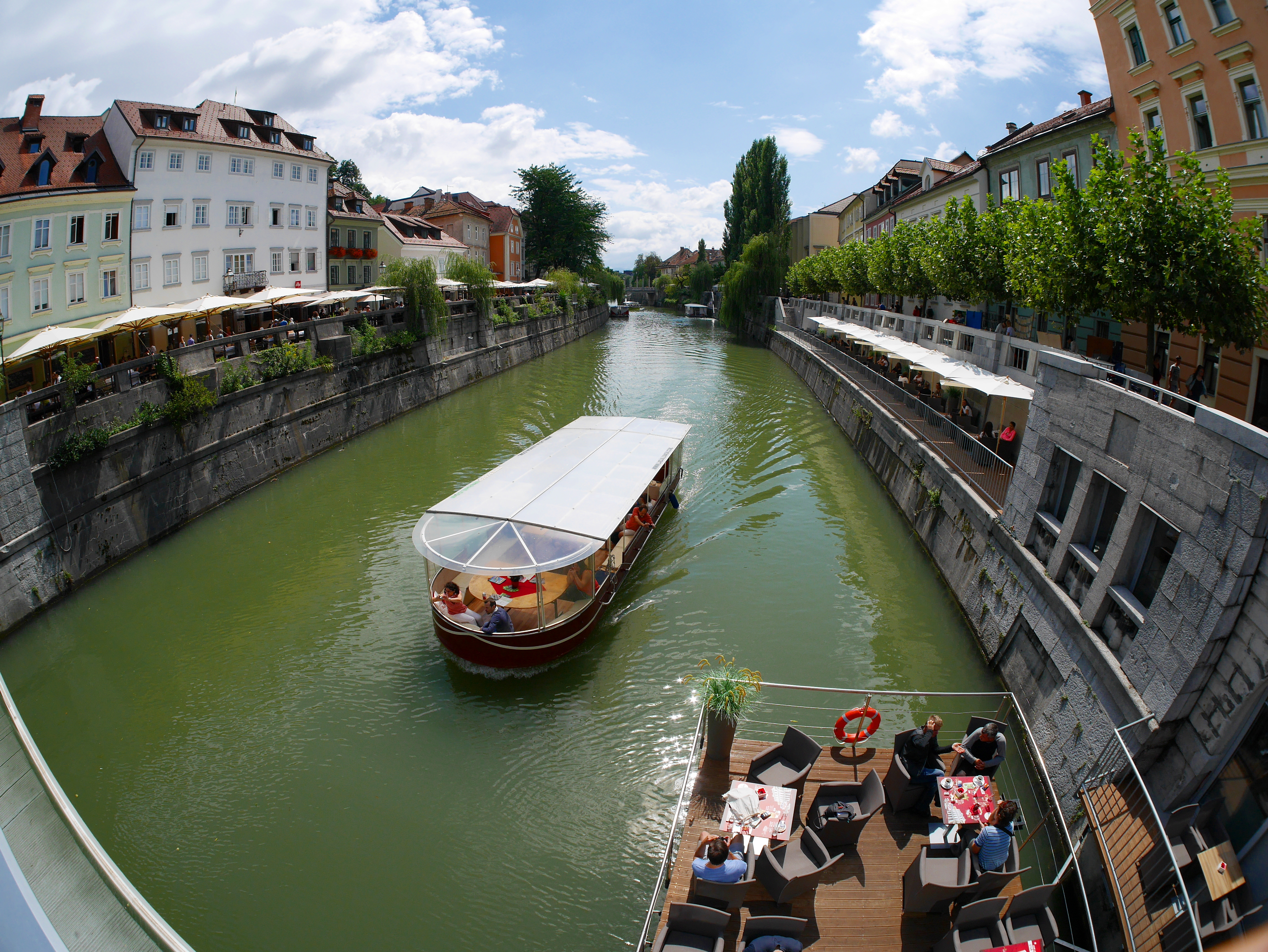 Ljubljana old town with excursion boat on river Ljubljanica, Slovenia.